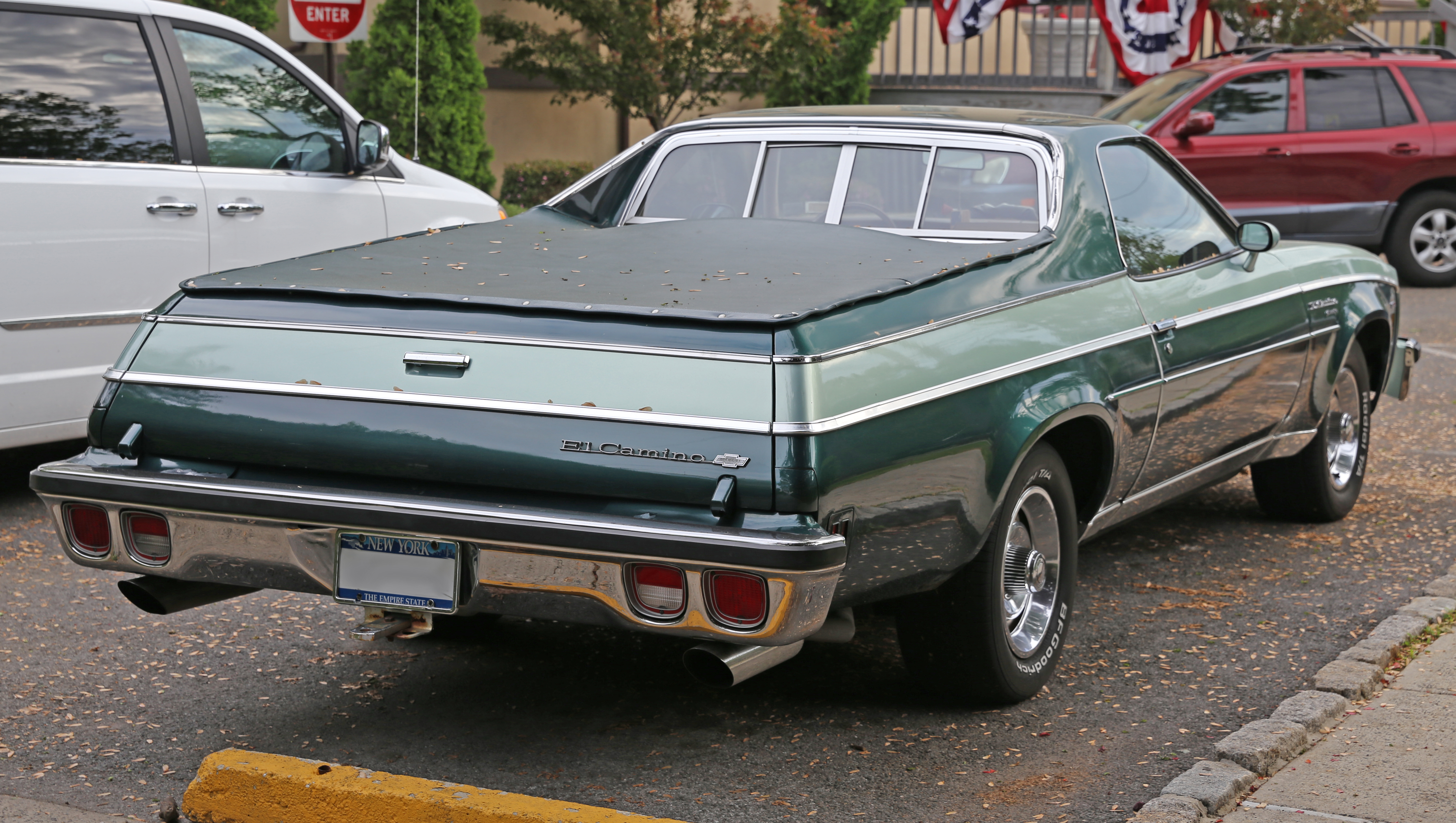 In a strange part of the Bronx. This lovely two-tone green El Camino was assembled in Fremont, CA, and has the usual 170hp 4-barrel 350ci V8 small block. Great shape, a joy to encounter.